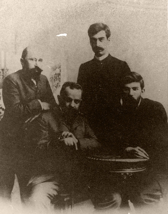 Bulgarian writers Krastyo Krastev, Pencho Slaveykov, Peyo Yavorov and Petko Todorov